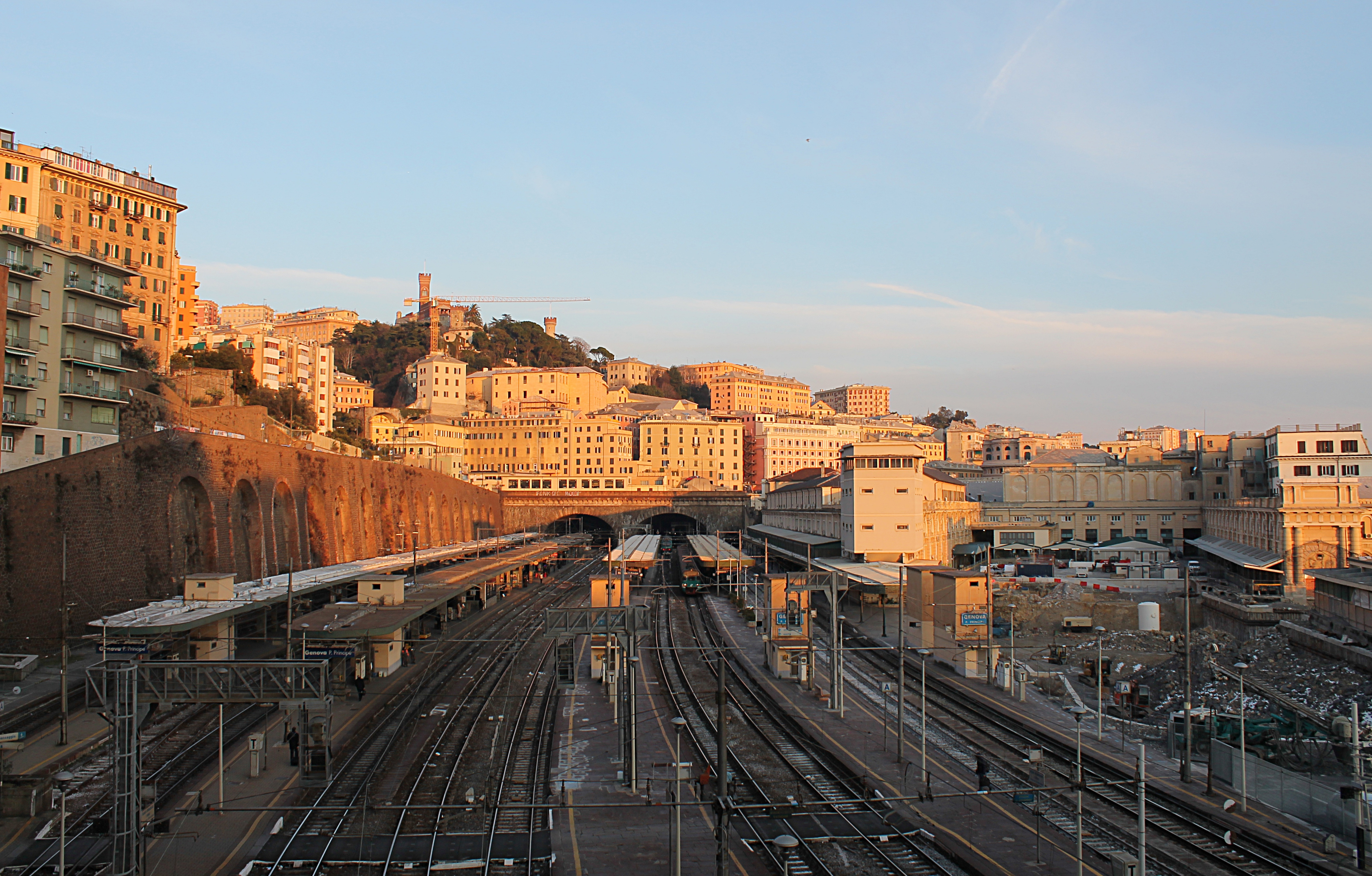 Platforms of Genova Piazza Principe railway station, central station of Genoa.